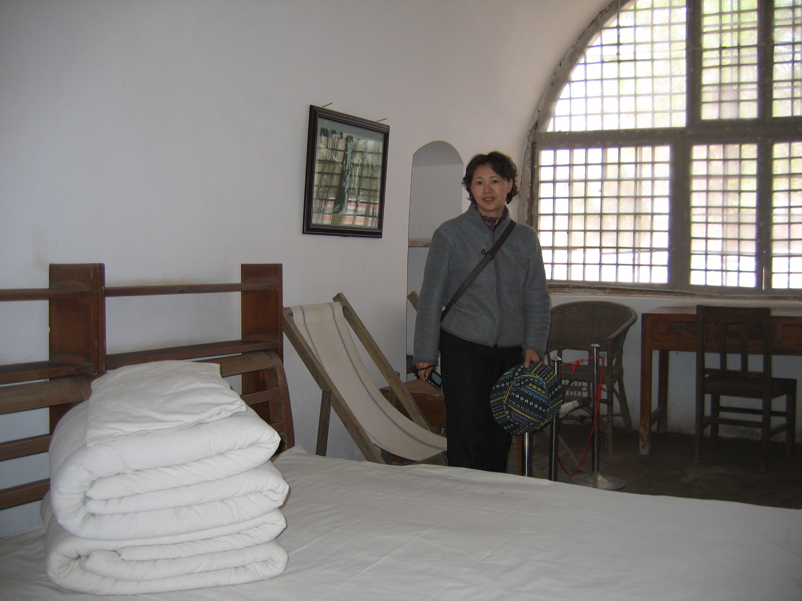 Yanan Shaanxi maoist city 陕西省延安市 Mao Zedong bedroom